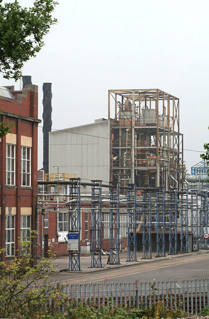 Celanese Acetate factory View from near the bottom of Anglers Lane